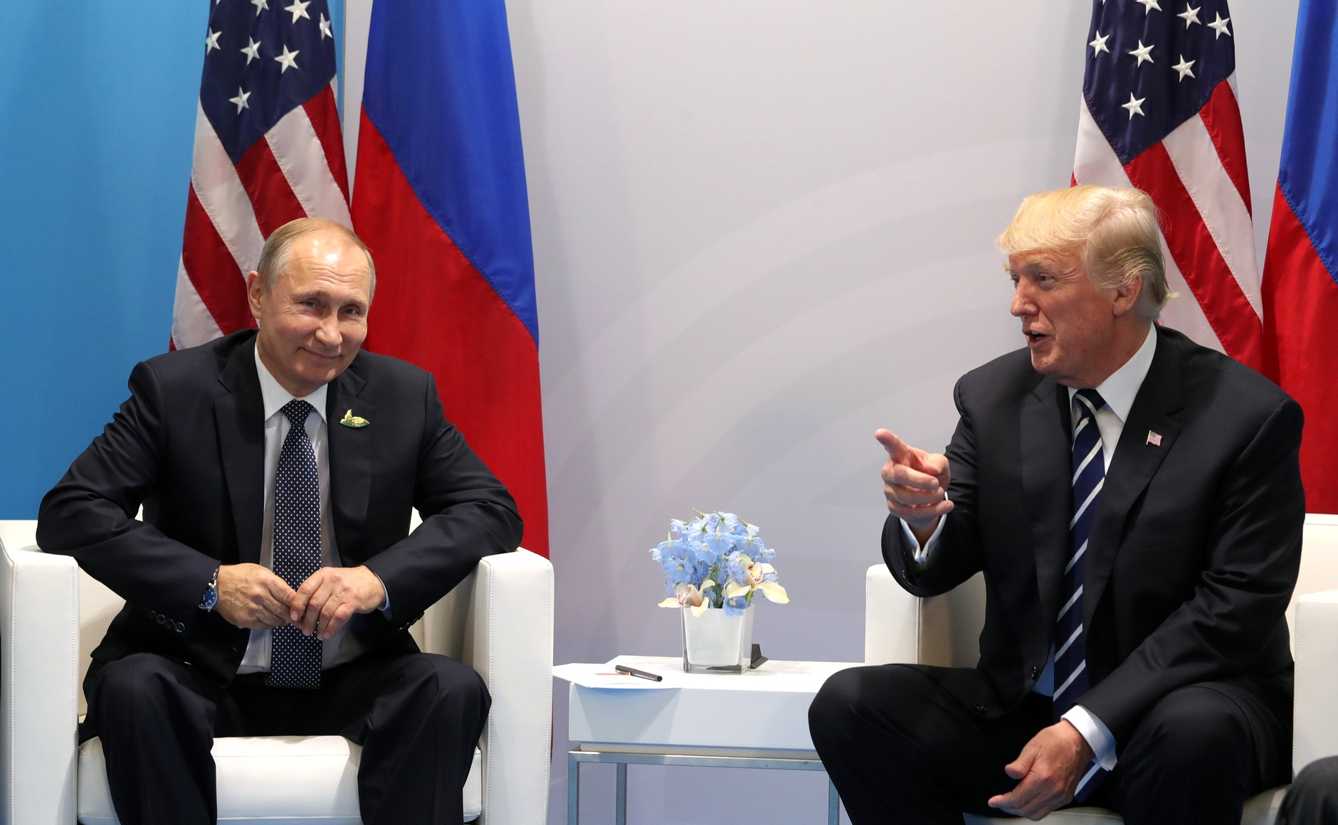 Vladimir Putin and Donald Trump meet at the 2017 G-20 Hamburg Summit